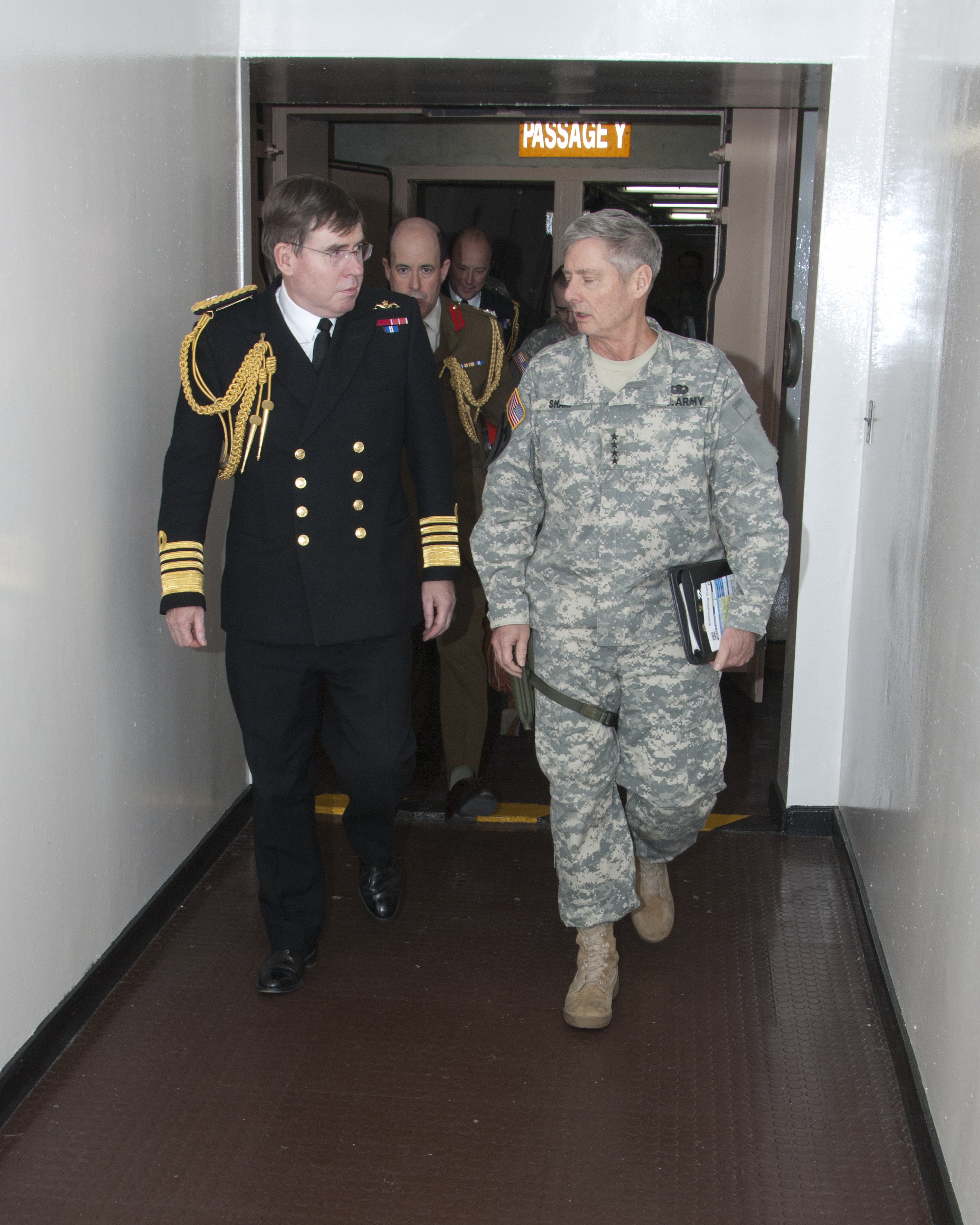 General Walter L. Sharp walks with the First Sea Lord, Admiral Sir Mark Stanhope, during a special dinner in his honor. (U.S. Army Photo By PFC Amber Smith)